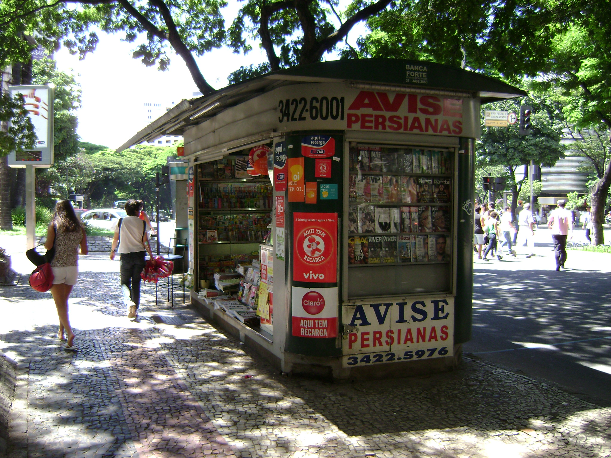 Newsstand in Savassi Square